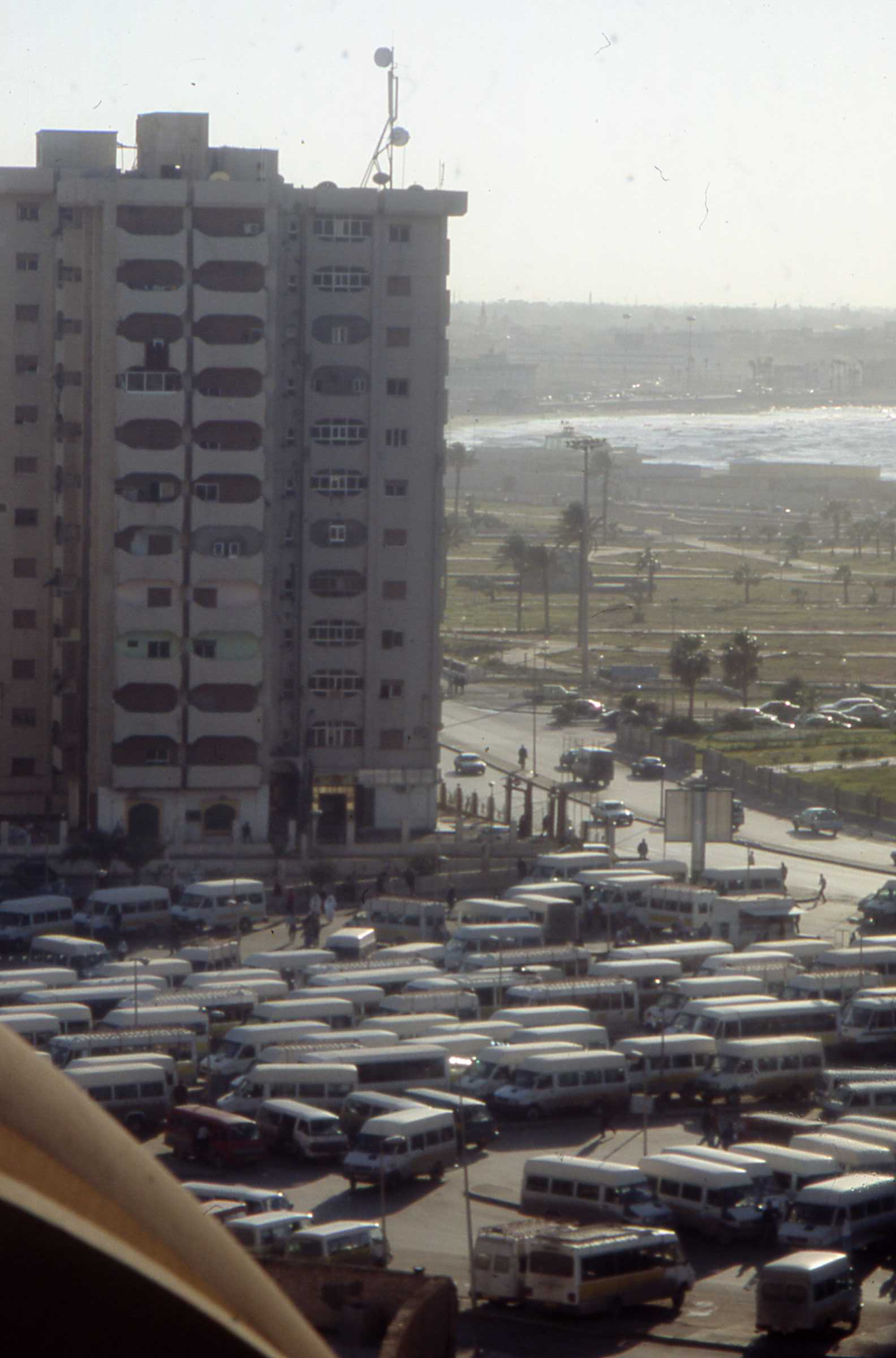 Not a particularly stimulating transport node for the enthusiast - scores and scores of minibuses. No railways in the country either. Thanks goodness there is at least a personality cult to provide a modicum of interest.